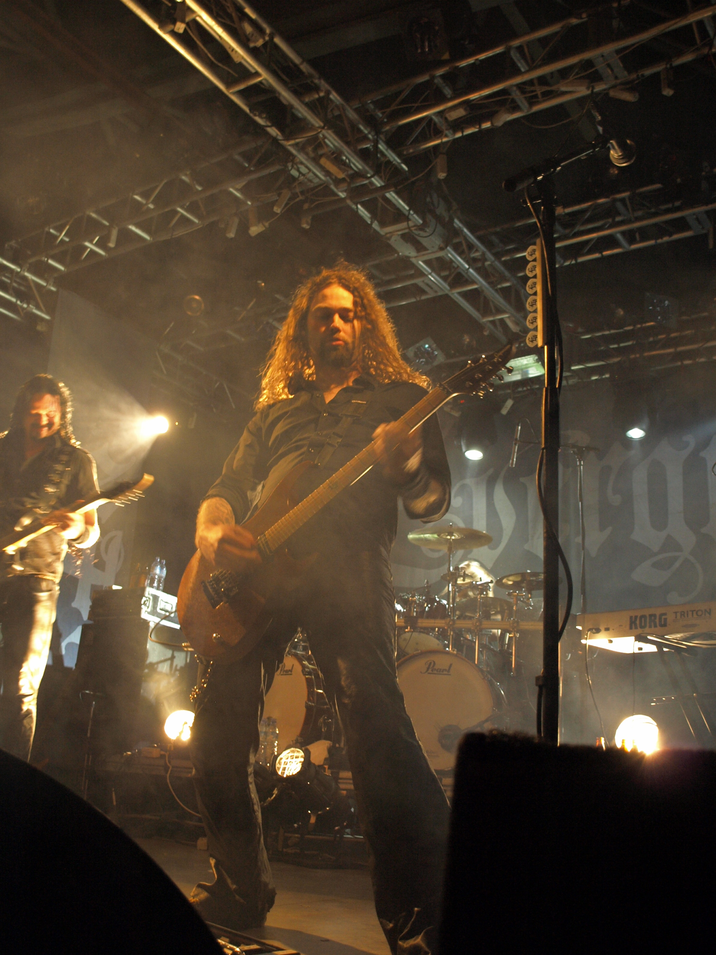 Swedish progressive metal band Evergrey live at Nosturi, Helsinki